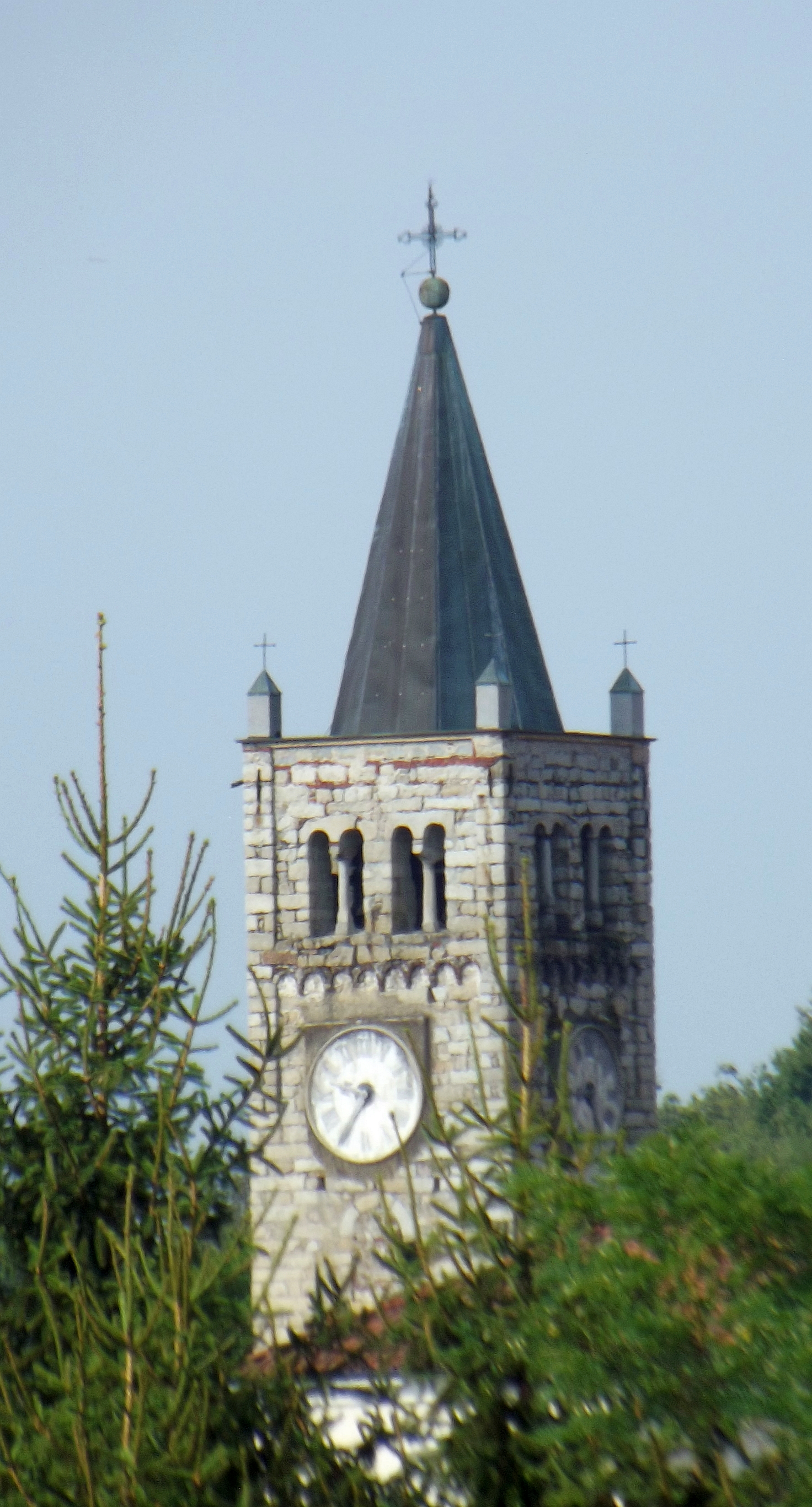 Mezzana Mortigliengo (BI, Italy): church tower